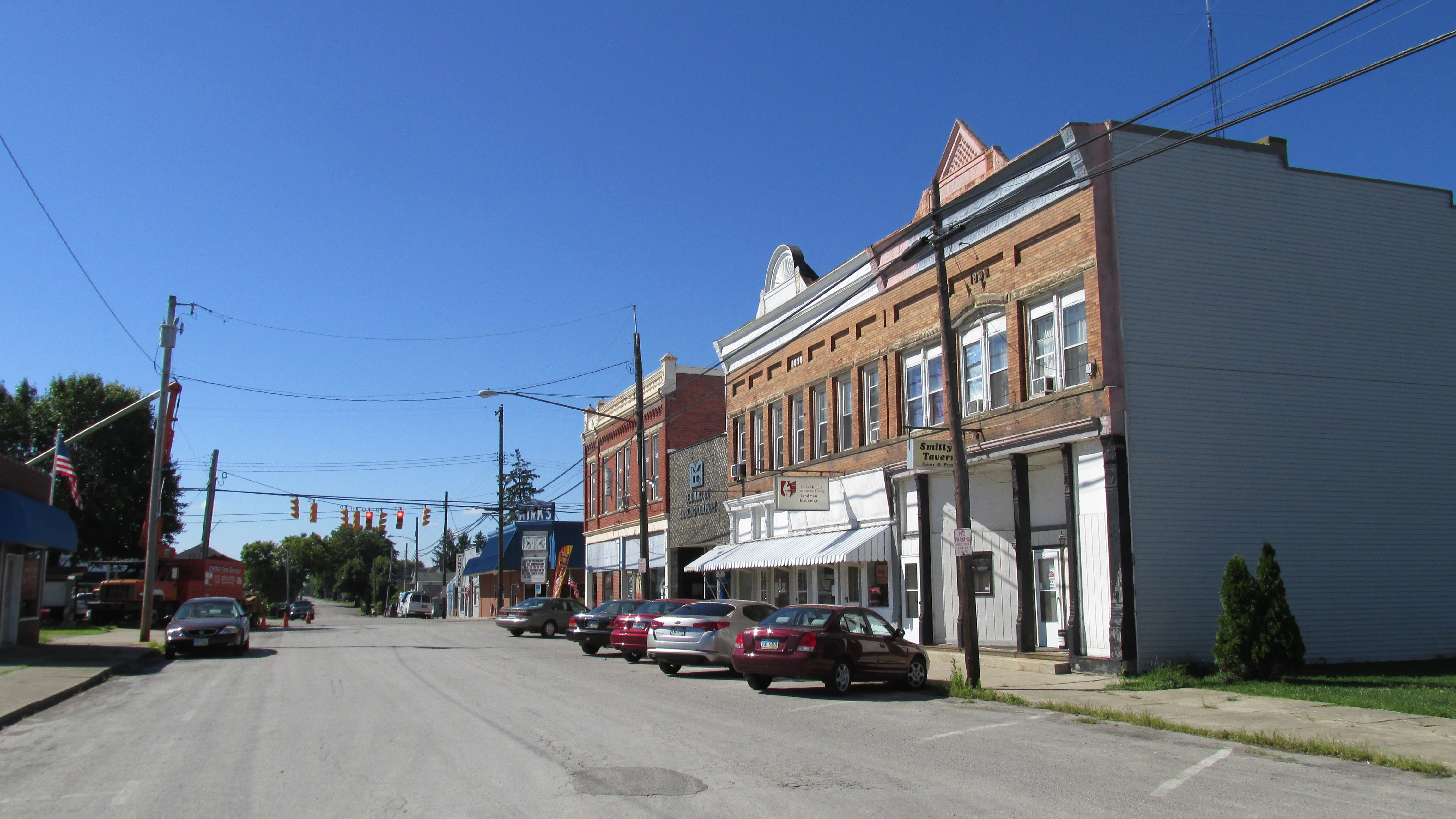 Central business district in New Holland.